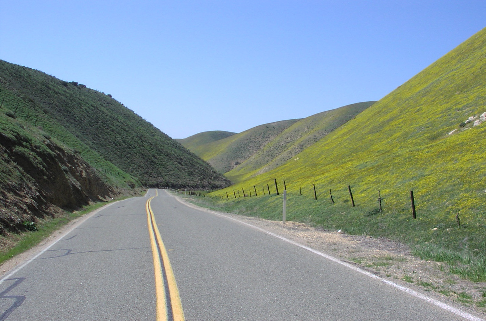 Highway 58 near the summit of the Temblor Range, looking west; photograph by User:Antandrus, 3/22/2008